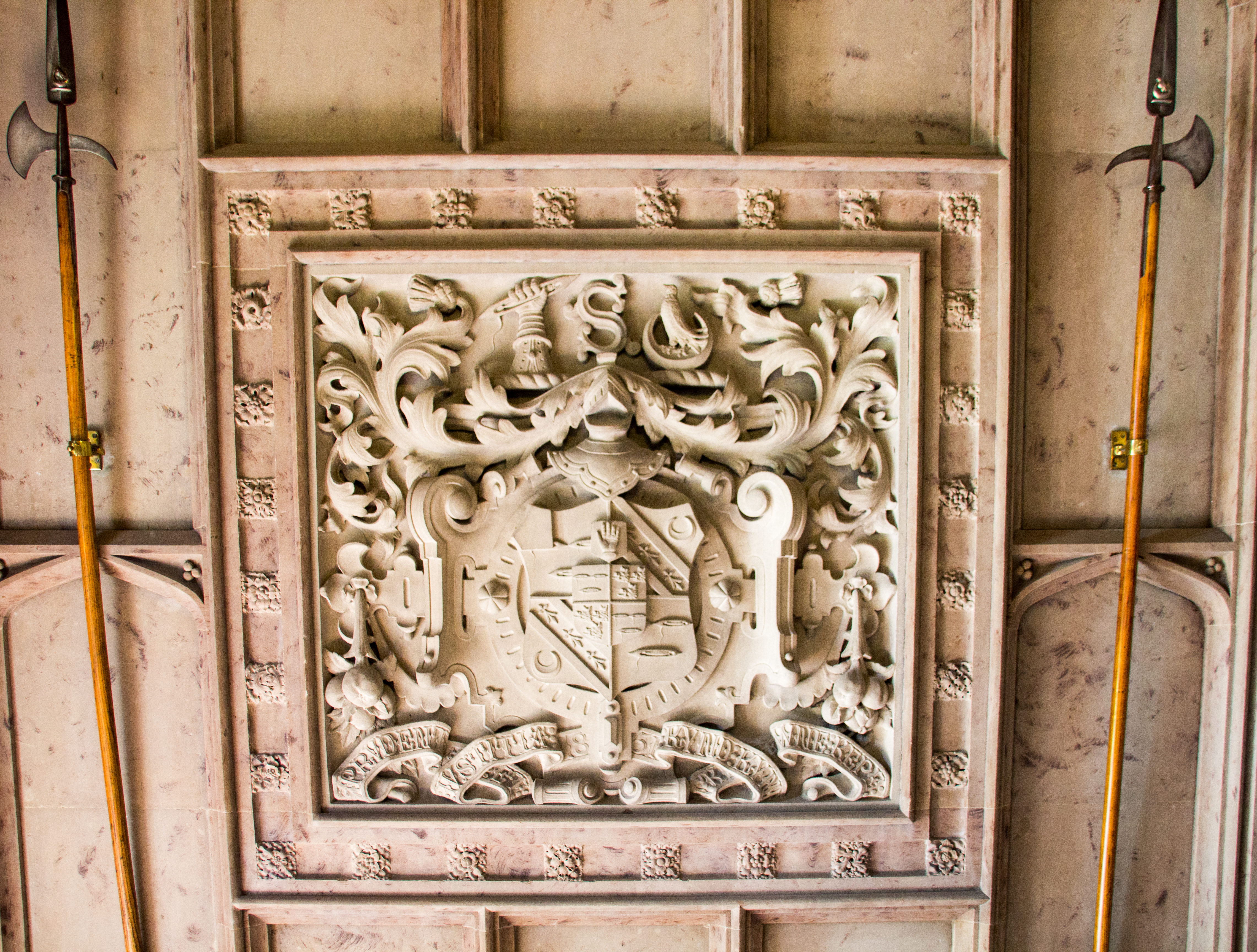 Shuttleworth arms, Gawthorpe Hall, Lancashire, England. Kay-Shuttleworth, Baron Shuttleworth. Argent, three shuttles sable tipped and threaded or (Shuttleworth) quartering: Argent, two bendlets sable between as many crescents azure between the bendlets three ermine spots (Debrett's Peerage, 1968, p.1020) blazoned better as: Argent, three ermine spots in bend between two bendlets sable the whole between as many crescents azure ("Kay" per: Complete Guide to Heraldry/Chapter 7[1]) (Kay given elsewhere as: Argent, two bendlets sable) With an inescutcheon of pretence of Shuttleworth quartering Three boar's heads (Gordon?) with an inescutcheon above of a Red Hand of Ulster for a baronet. Motto: Prudentia, Justitia, Kind Kin When Known Keep. Scrollwork surround to shield, a feature of Elizabethan design. Date in middle of scroll: "1851", thus representing Sir James Phillips Kay-Shuttleworth, 1st Baronet (1804-1877) (born James Kay), who in 1842 married Janet Shuttleworth (born 1817), heiress of Gawthorpe Hall, and assumed by royal licence the name and arms of Shuttleworth.